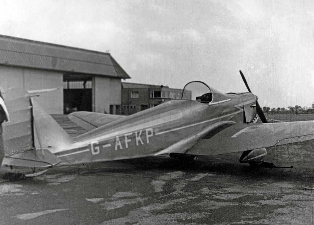 Tipsy Trainer 1 (Tipsy B) G-AFKP at Manchester Airport in 1949